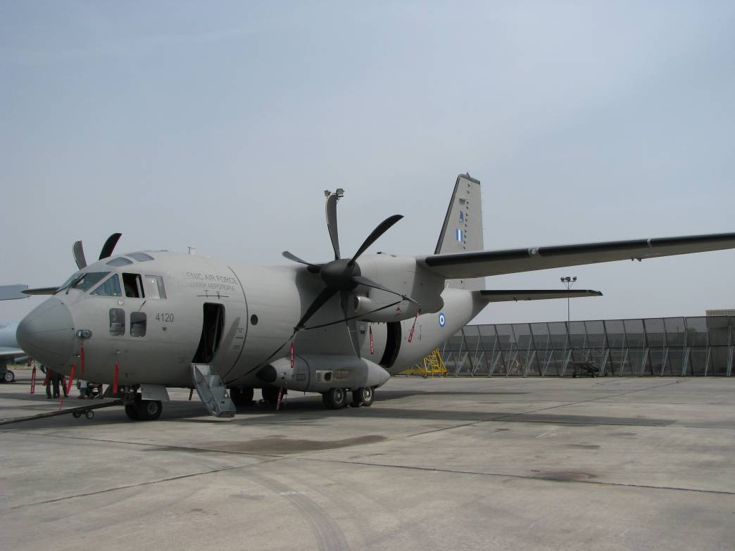 A Hellenic Air Force C-27J Spartan displayed at the 2008 HAF air show, in Tanagra airbase, Greece